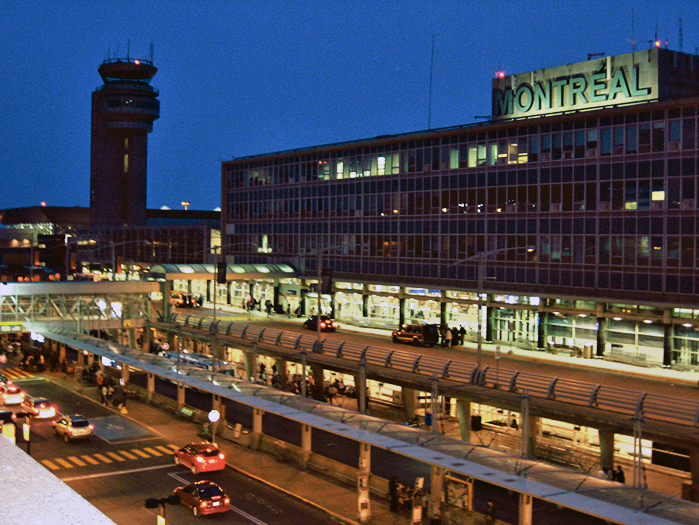 Montreal-Pierre Elliott Trudeau International Airport (YUL, CYUL)